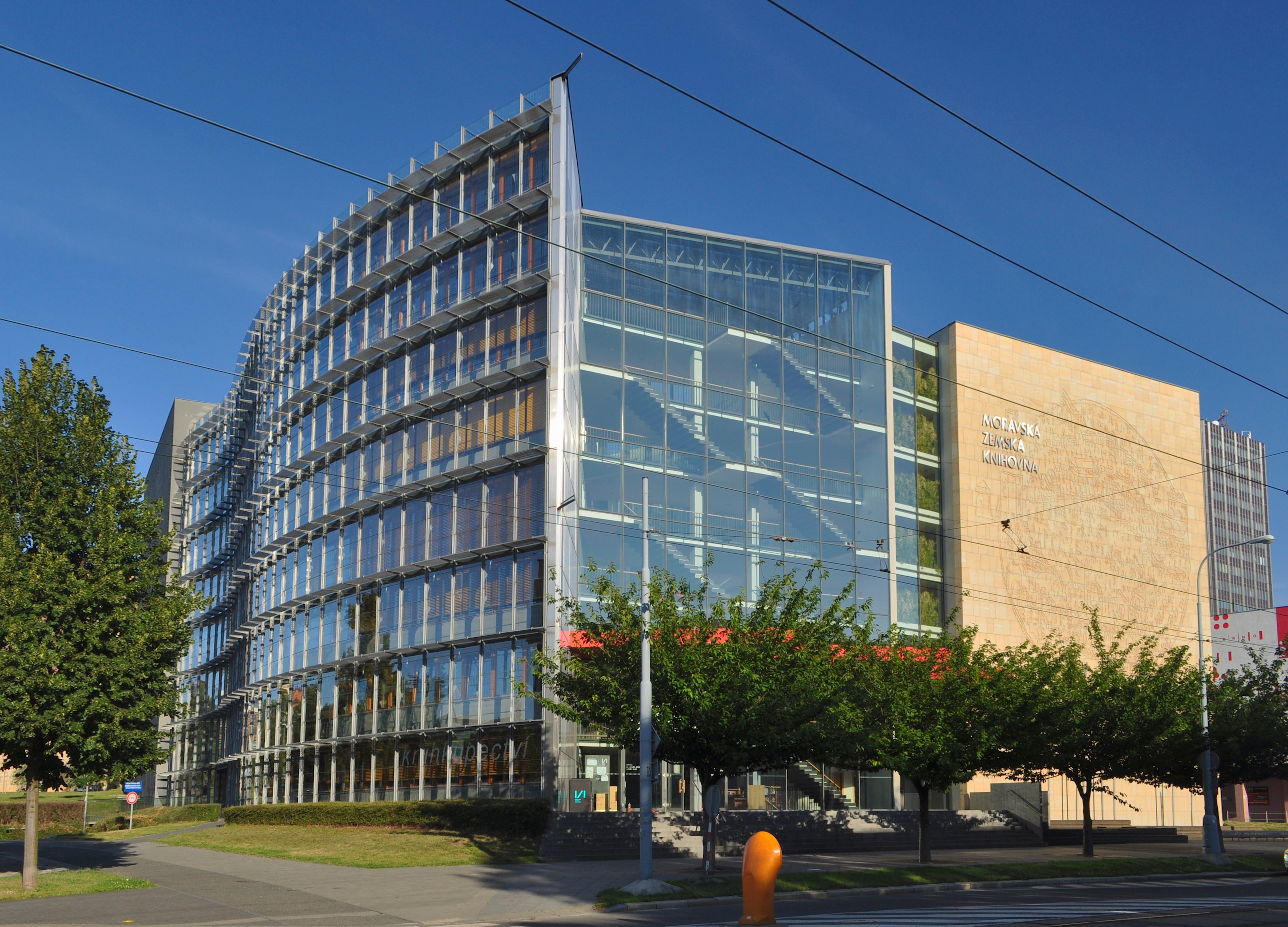 Building of the Moravian library in Brno, Moravia, European union, primarily scientific library with over 4 million books